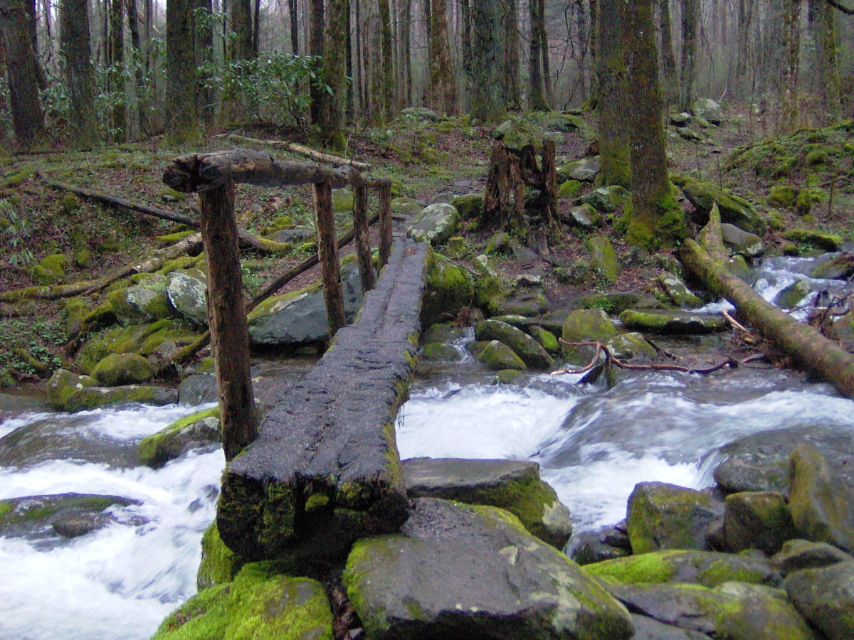 Footbridge over Cosby Creek, near the Low Gap Trailhead in the Great Smoky Mountains of Cocke County, Tennessee, USA.